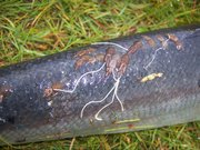 Really fresh sea lice on the back of an Atlantic salmon caught in Iceland